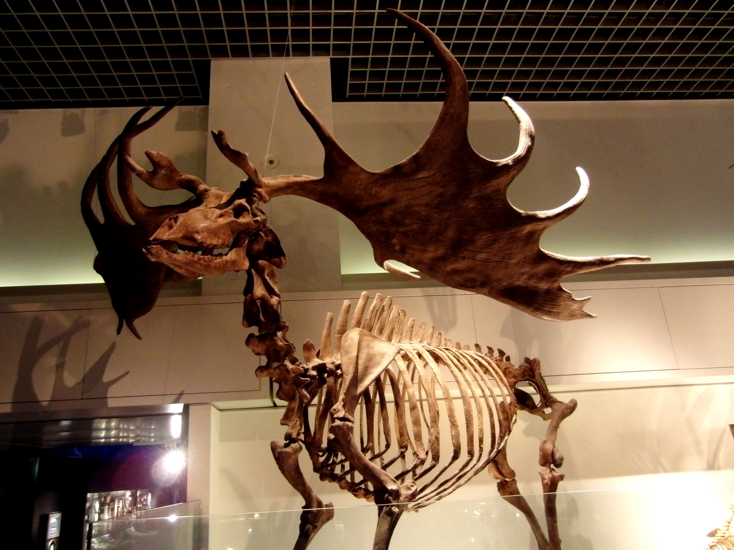 Skeleton of Irish Elk (Megaloceros giganteus). Exhibit in the National Museum of Nature and Science, Tokyo, Japan.